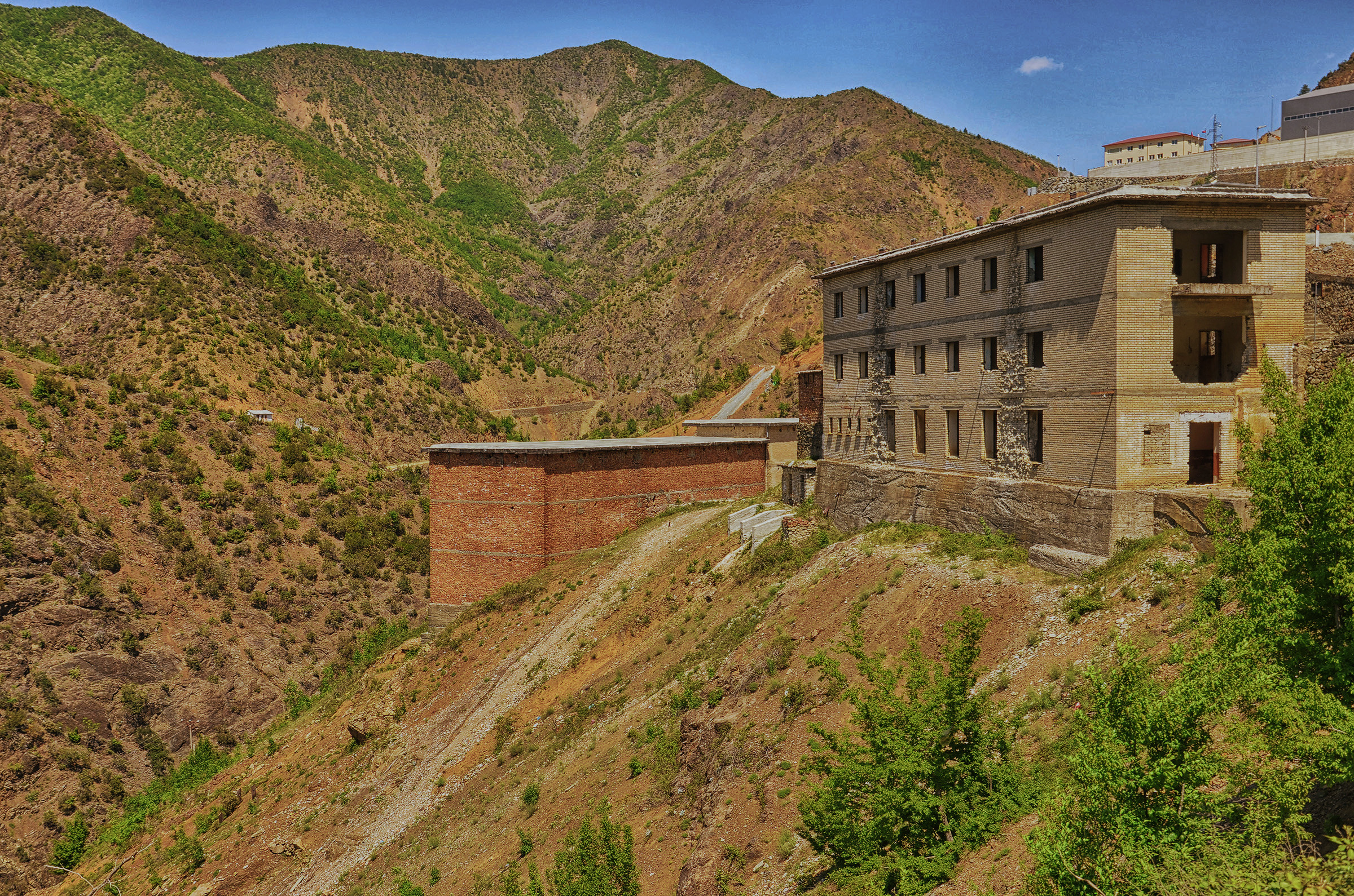 The view of the Spaç Prison in Mirditë, Albania. The red brick building on the left is the former quarter of the political prisoners retained in Spaç, the grey building on the right is the headquarter of the prison administration.